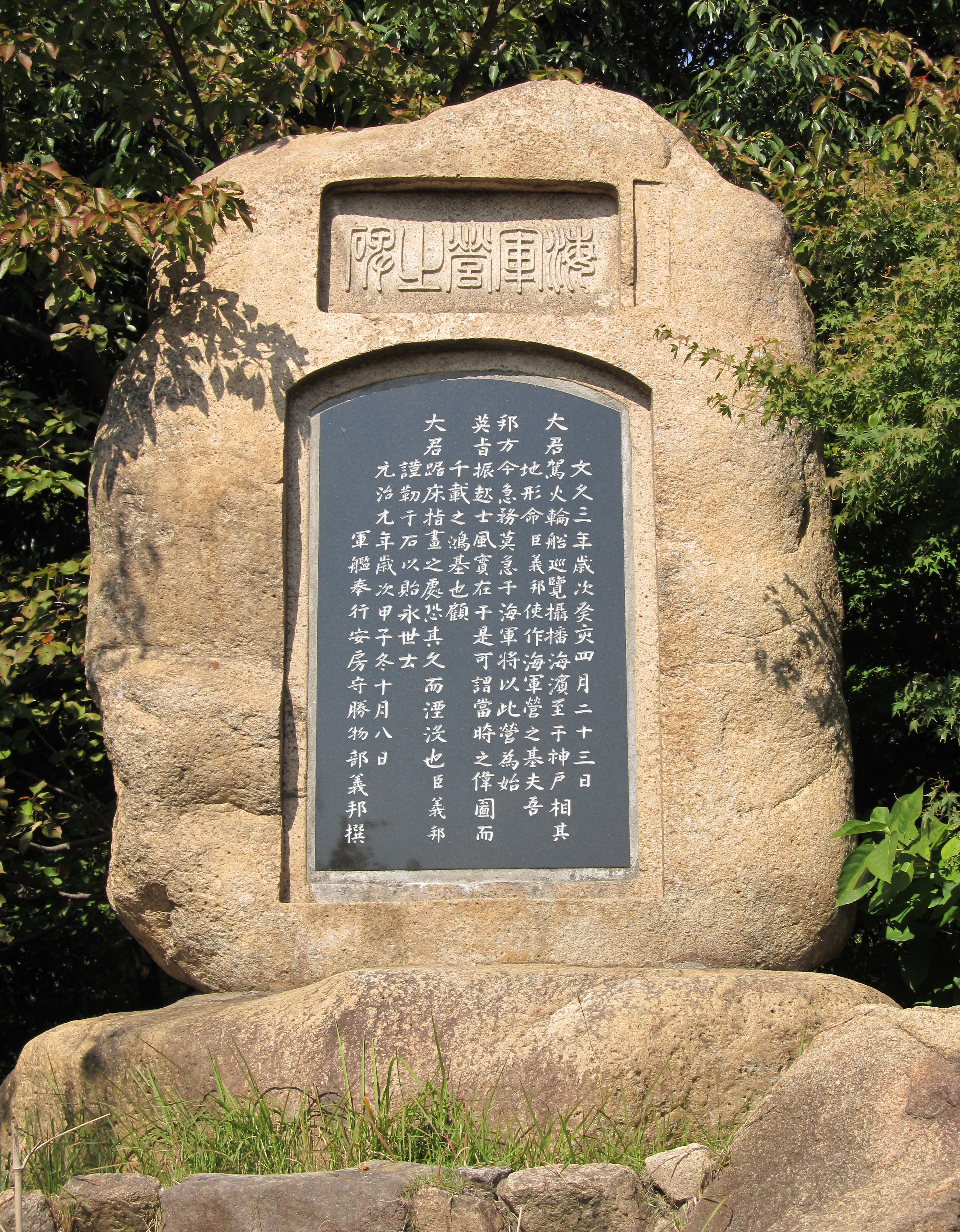 Monument at Kinseidai (Chūō-ku,Kobe,Hyogo,Japan).Created by Katsu Kaishū(1823 - 1899).